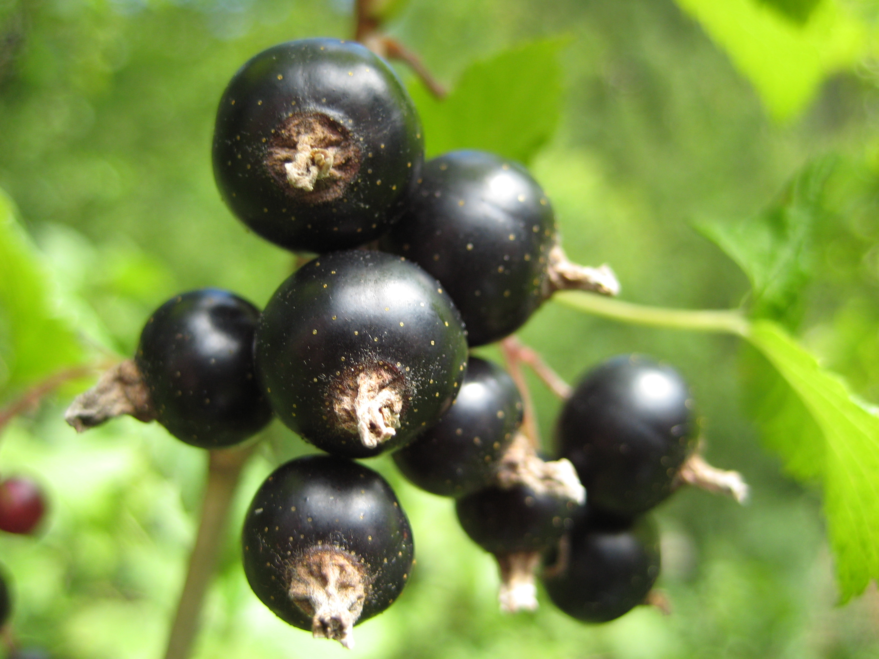 Blackcurrant